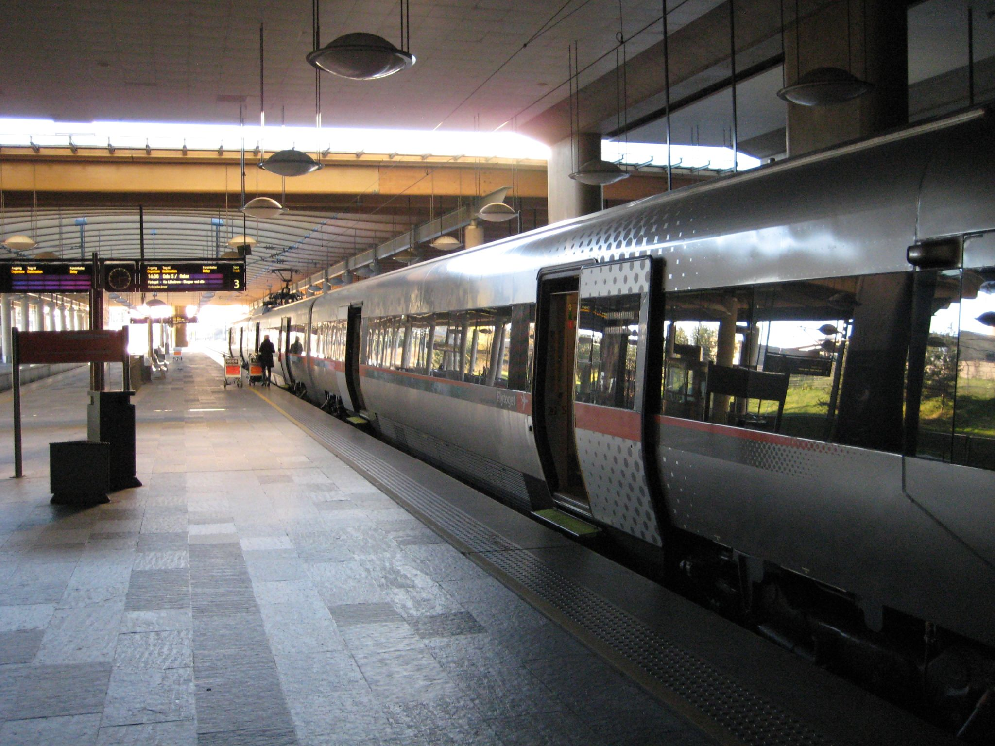 Flytoget (Airport Express Train) at Oslo Airport Station, Ullensaker, Norway. Train is type 71.